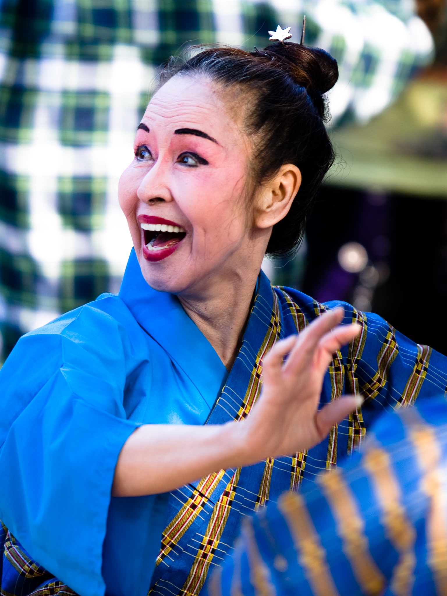 After the main performance, the group came down among the audiance and lead a festival dance with the crowd.